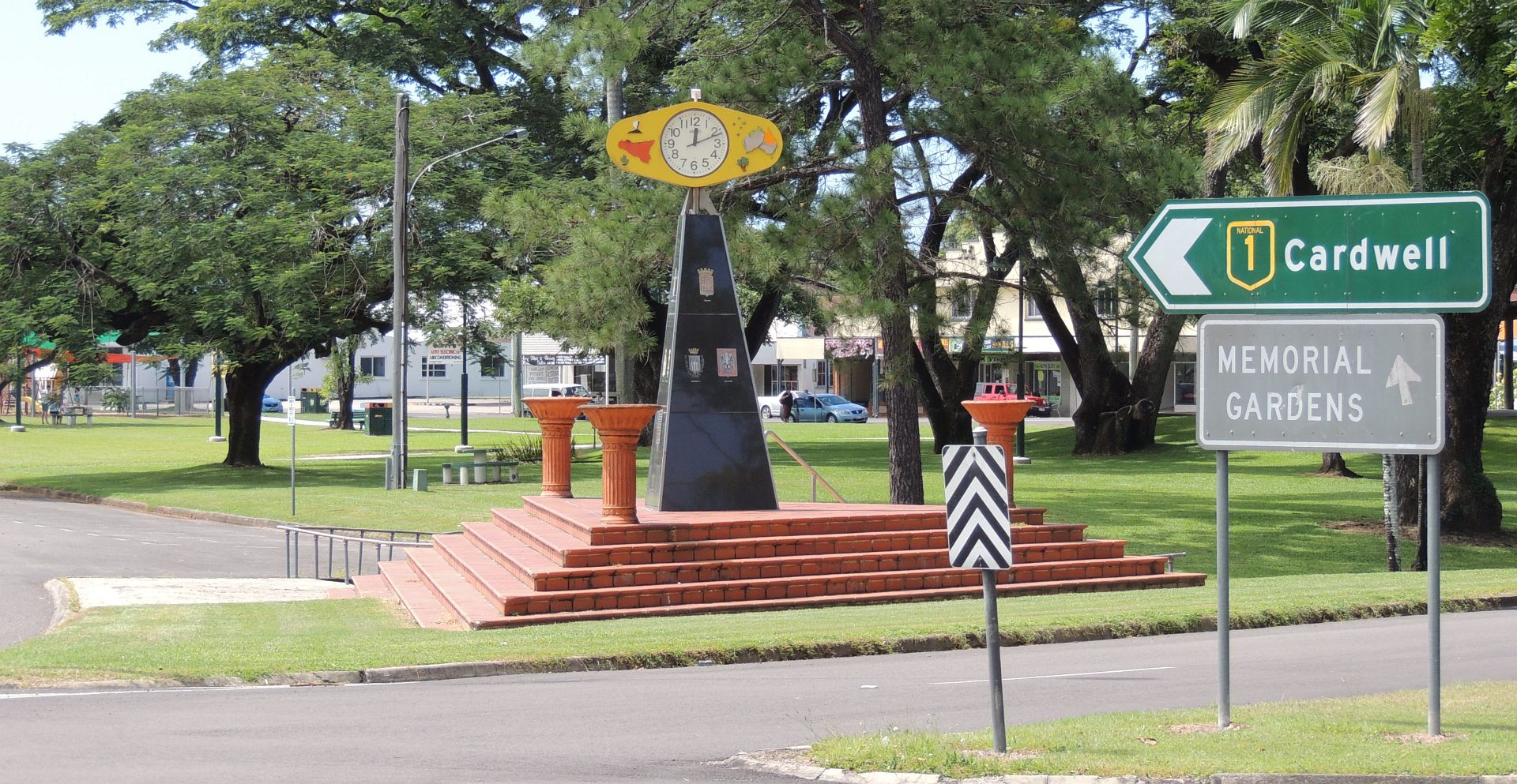 Sicilian - Australian clock at Rotary park Ingham, NQ. (Donated by Salvatore Di Bella of the Ingham Sicilian Association)